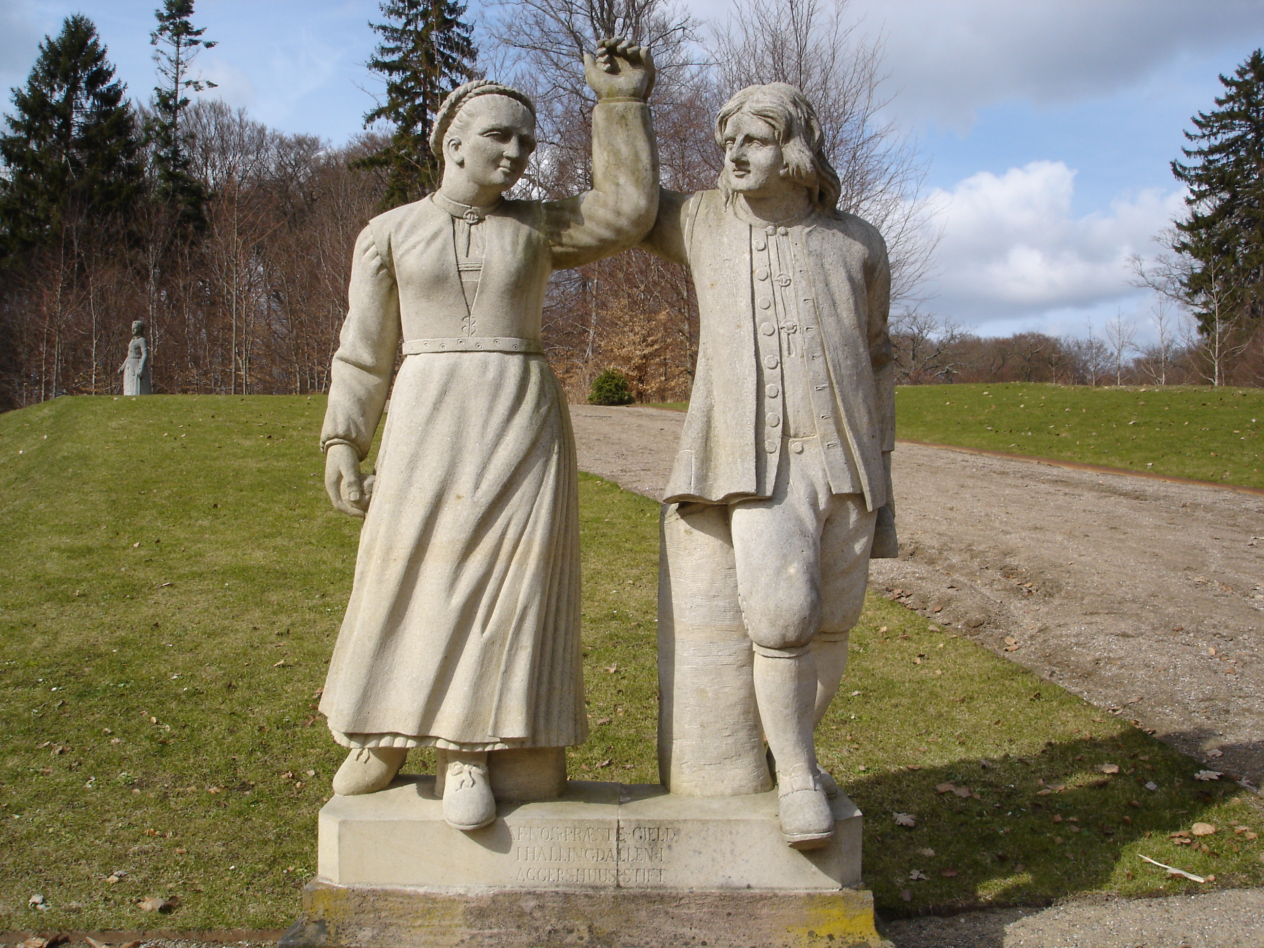 Sculpture of dancing man and woman from Nos Præstegield i Hallingdalen i Aggershuus Stift. The Norwegian Valley near Fredensborg Slot.